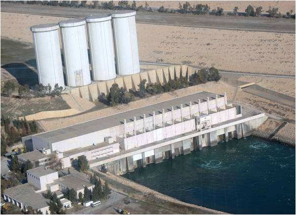 The hydroelectric power plant at Mosul Dam with four surge tanks in background